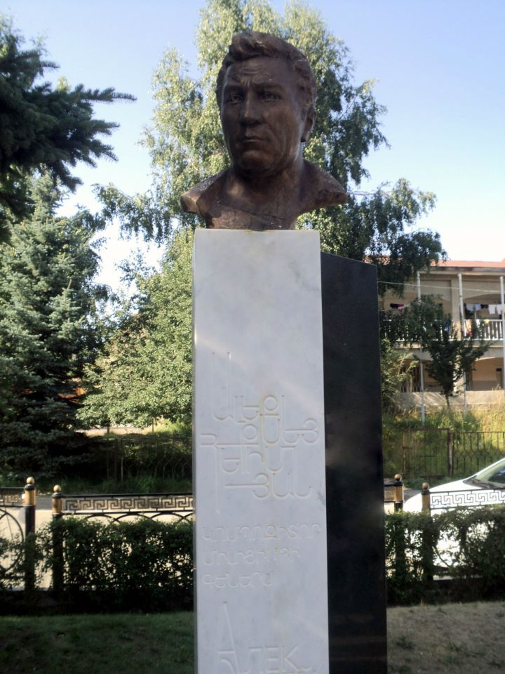 Alexey Heqimyan's bust, Tsaghkadzor